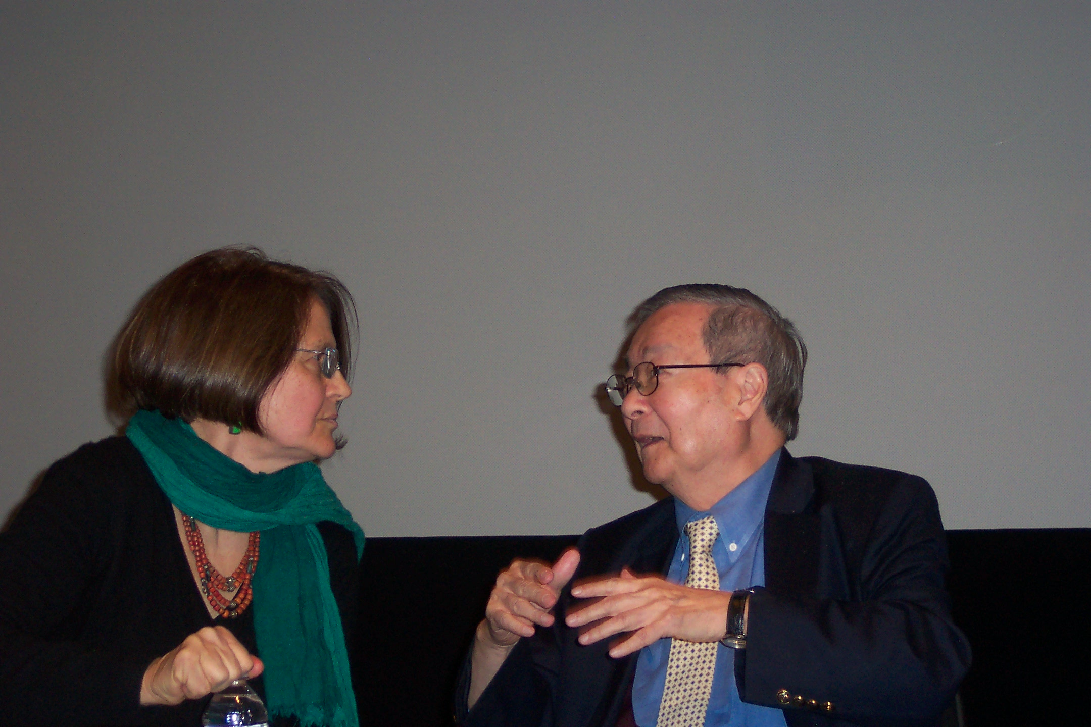 Panel discussion on The Red Detchment of Women on 11 November 2012 at Freer Gallery (l to r) Dr. Carma Hinton, Dr. Chi Wang.